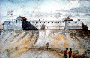 Potrait of Fort Frederick in Albany, New York as it looked in the 1700s as drawn by James Eights in the mid-1800s.